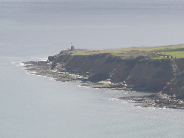 Wave-cut platform to the east of Straight Point The promontory above is used exclusively by the Royal Marines for shooting practice.